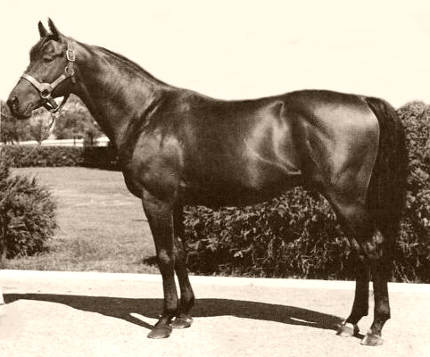 Citation (1945–1970) was the eighth American Triple Crown winner and one of three major North American Thoroughbreds (along with Cigar and Zenyatta) to win at least 16 races in a row in major stakes competition.